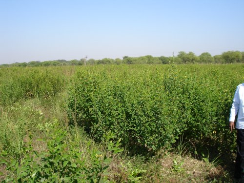 Arhar farming on Safed Musli bed (Chlorophytum borivilianum)